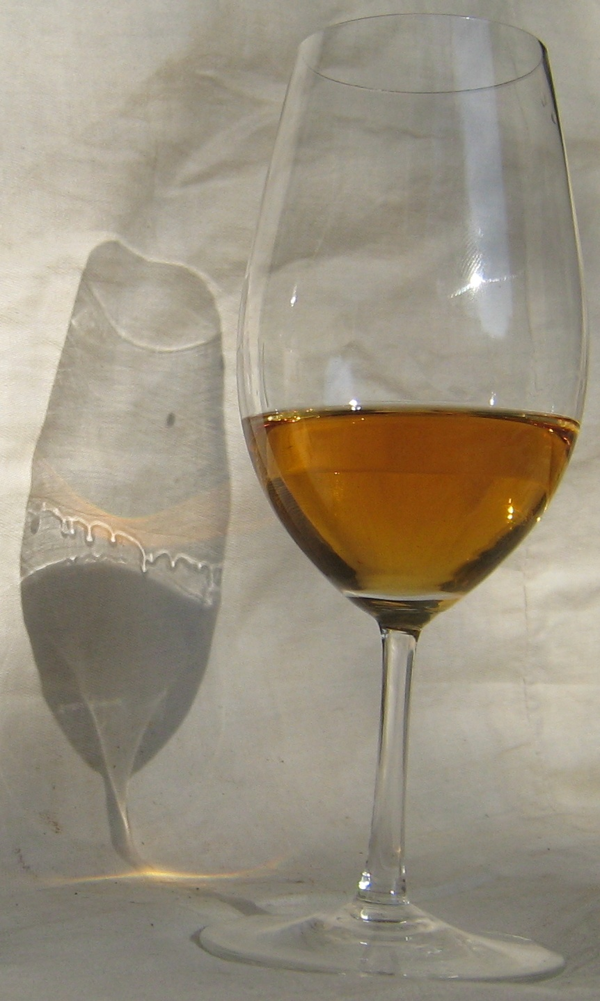 Cropped from File:Calusopassito.jpg, showing glass of Caluso Passito wine with shadow of wine legs / tears of wine.